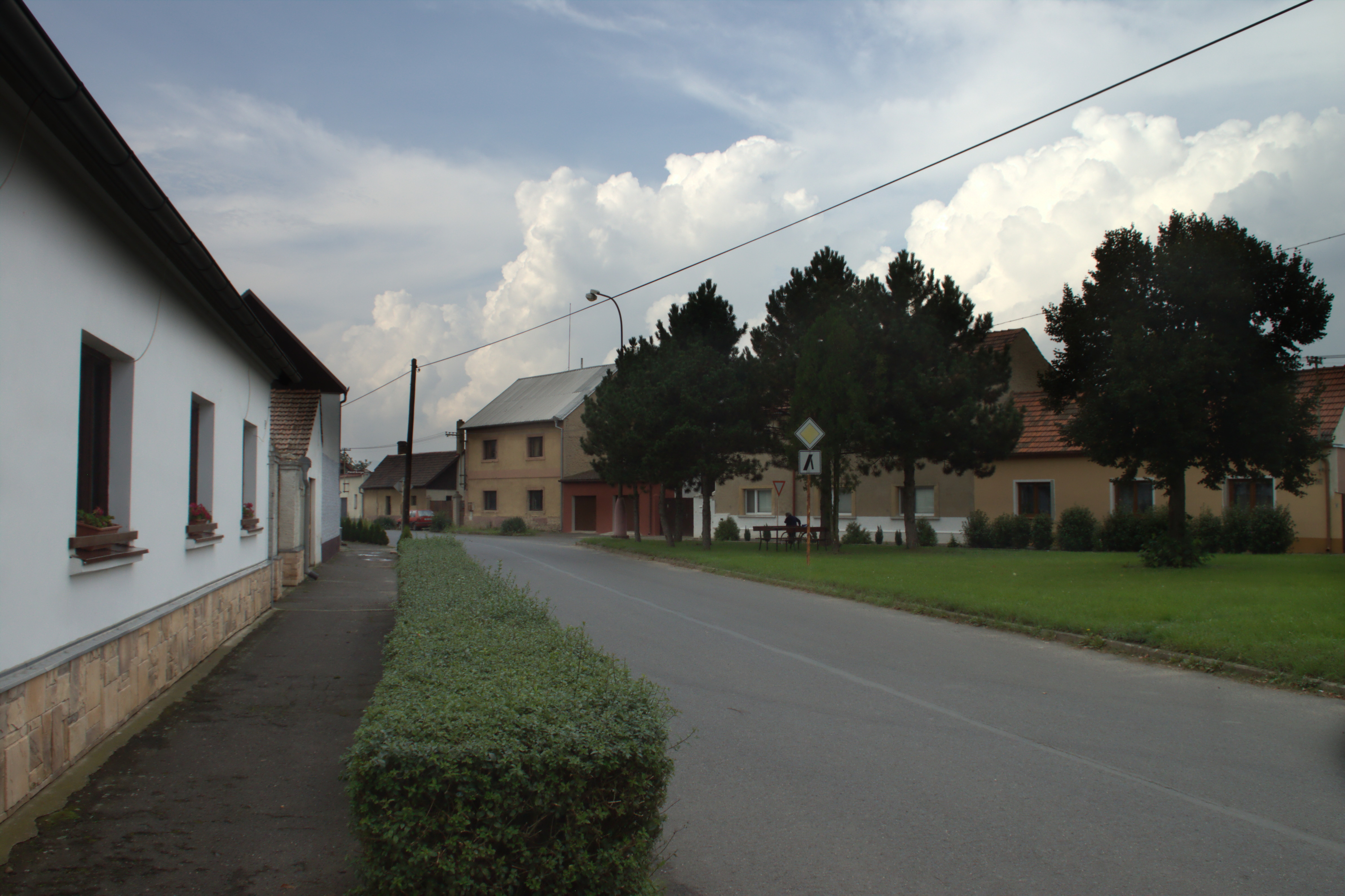 A road in the village of Travčice, Ústí Region, CZ